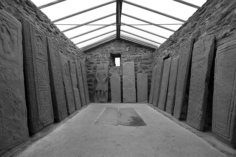 Kilmartin Stones in Scotland. Date: 05-20-2005 5-4.5 USM Focal Length: 10mm F-Stop: f/6.3 Shutter Speed: 1/100 sec ISO: 400 Photographer: Chrys Category:Images of Scotland